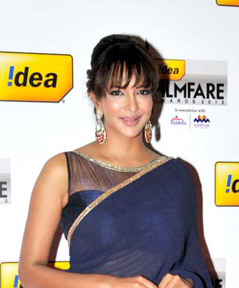 Lakshmi Manchu at the 60th Filmfare Awards South